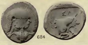 Greek coins and their parent cities (1902) Author: Ward, John, 1832-1912; Hill, George Francis, Sir, 1867-1948 Subject: Coins, Greek; Numismatics, Greek; Greece -- Description, geography; Italy -- Description and travel; Turkey -- Description and travel Publisher: London : Murray Possible copyright status: NOT_IN_COPYRIGHT Language: English Call number: AKB-0671 Digitizing sponsor: MSN Book contributor: Robarts - University of Toronto Collection: toronto Scanfactors: 7